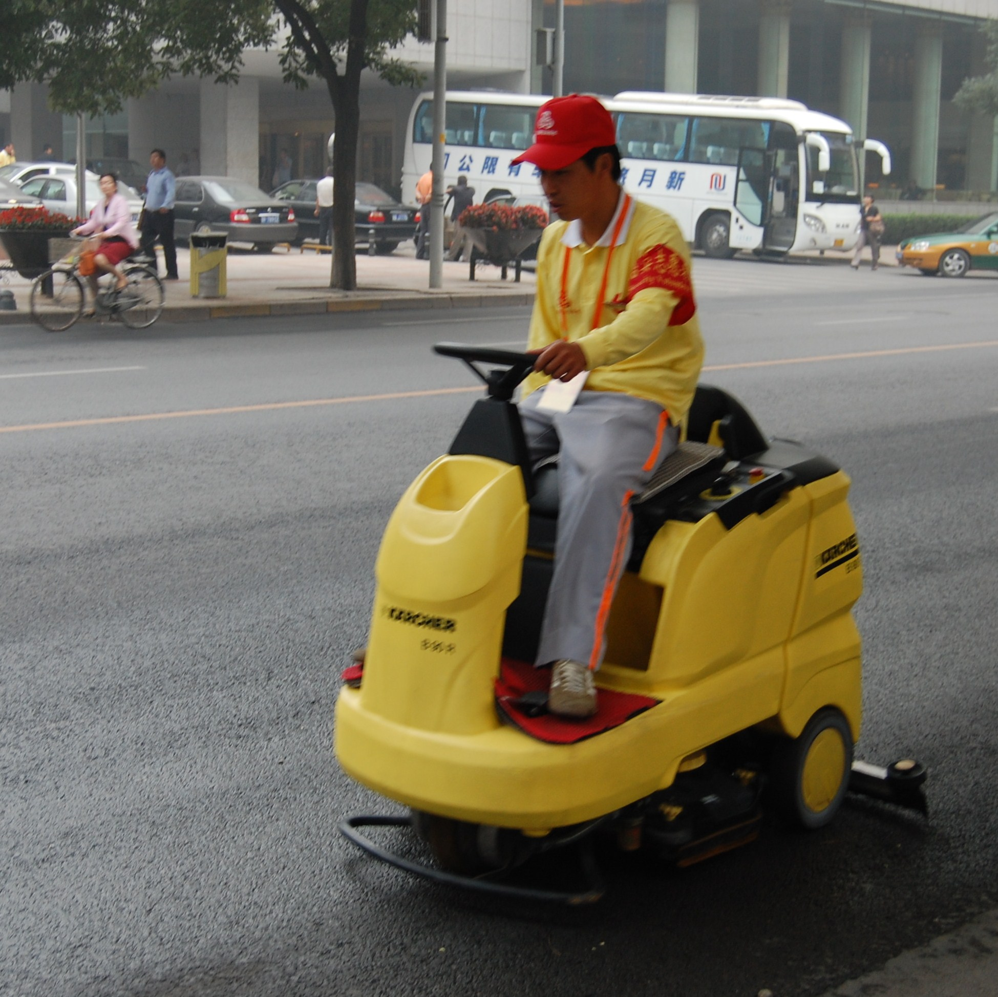 Street sweepers in Beijing, dressed in yellow shirt as volunteers for the 60th anniversary, riding a Kärcher B90R.